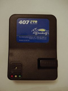 photo of a 407 toll transponder